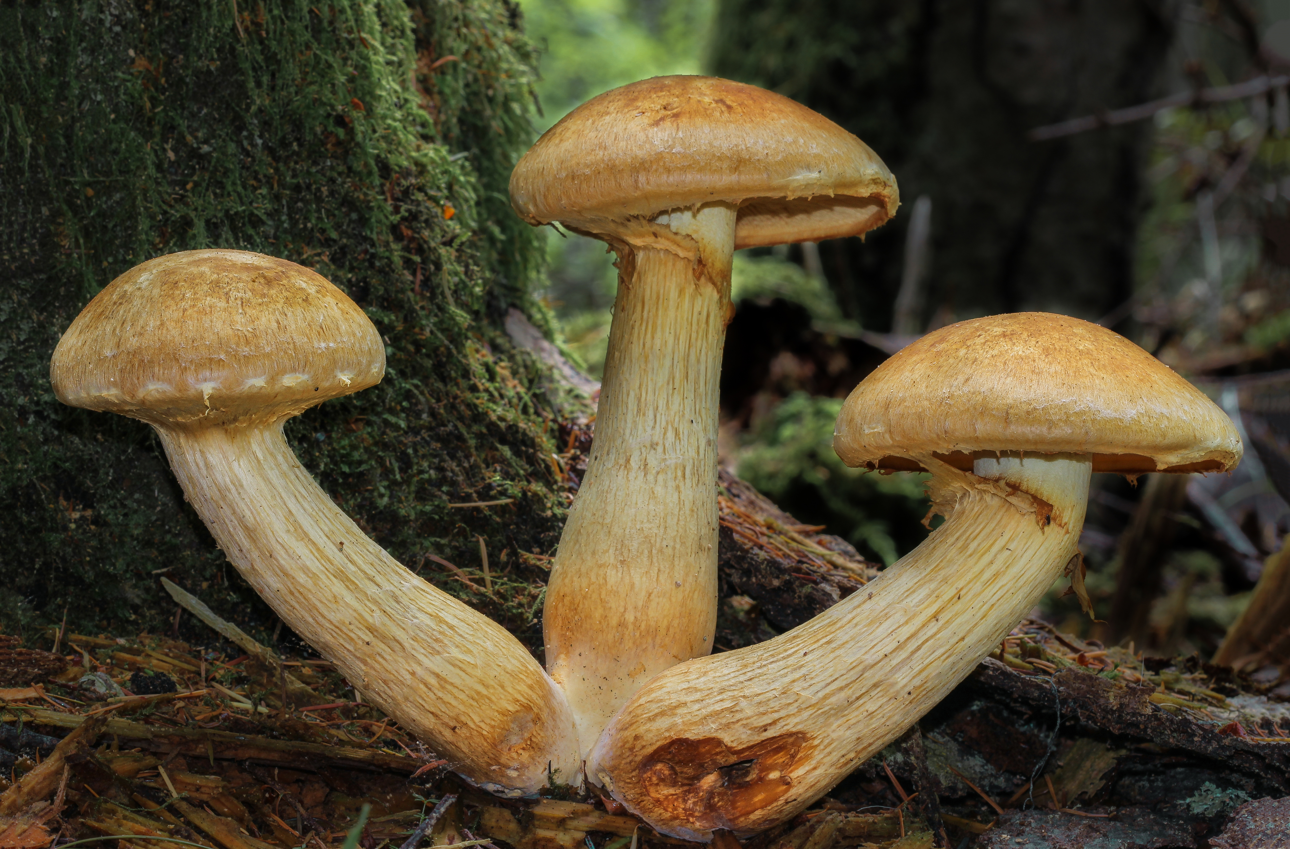 A Gymnopilus viridans in Fort Flagler State Park.